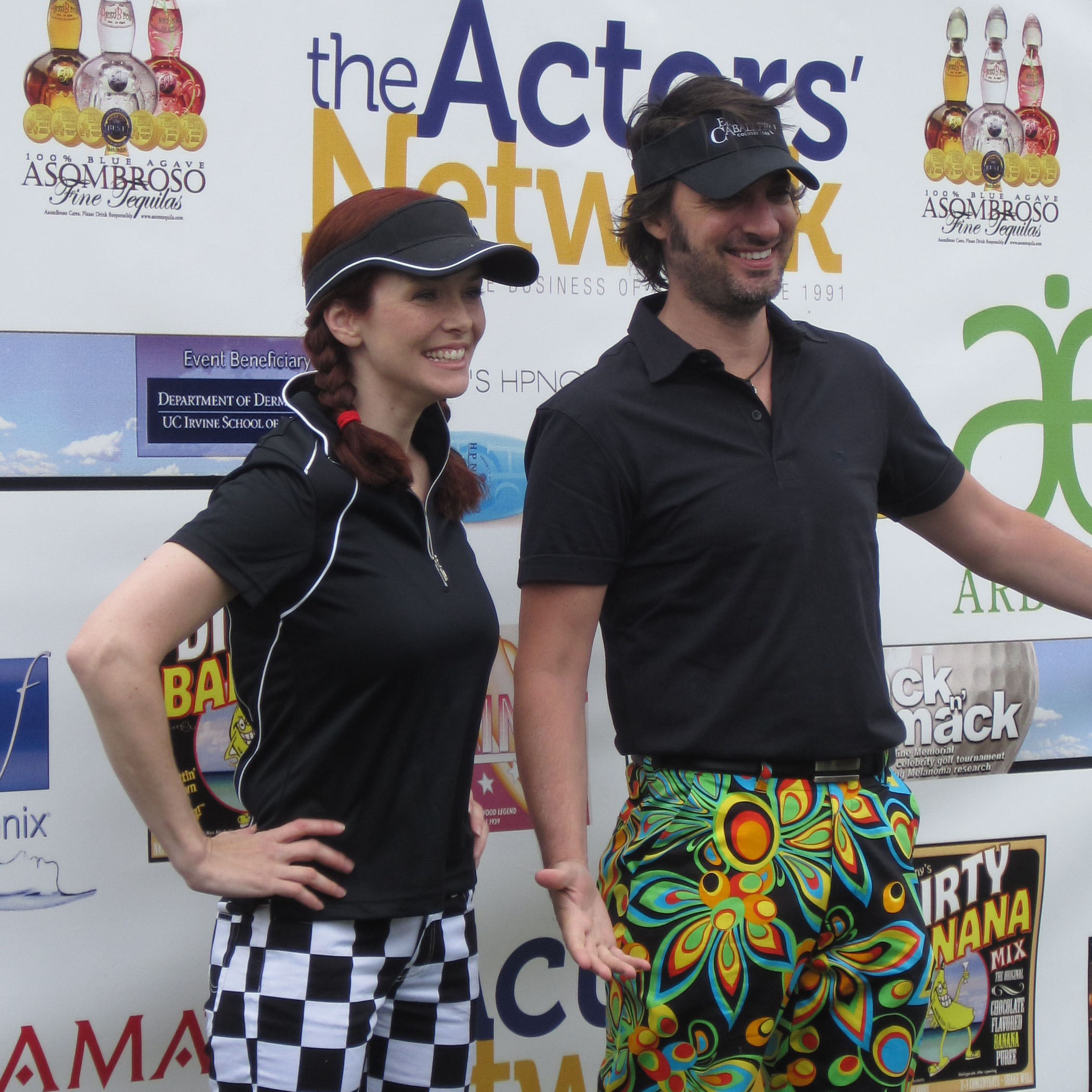 Annie Wershing (24) & Stephen Full (I'm In The Band) arrive at the 8th Annual Hack n' Smack Celebrity Golf Tournament in support of Melanoma. For more information on the Hack n' Smack Celebrity Golf Tournament